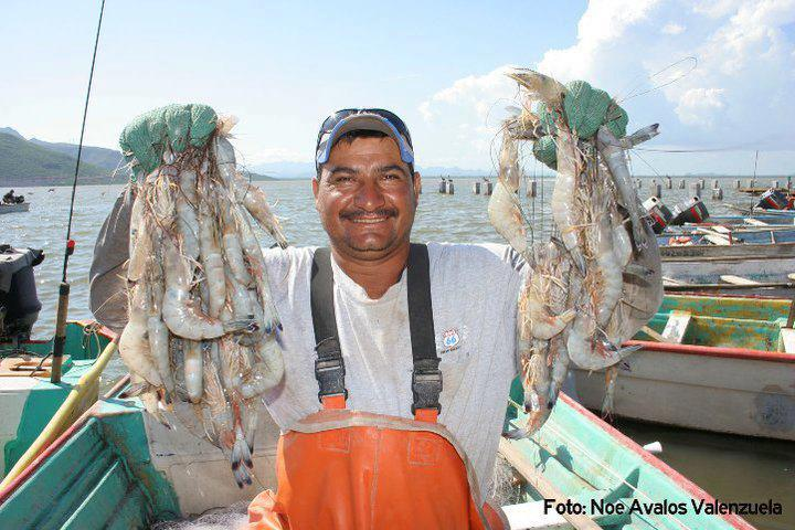 pescador en acción